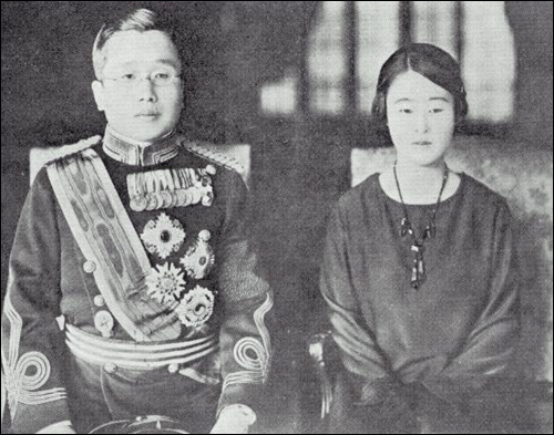 Yi Un and Yi Bangja (Nashimoto no miya Masako)